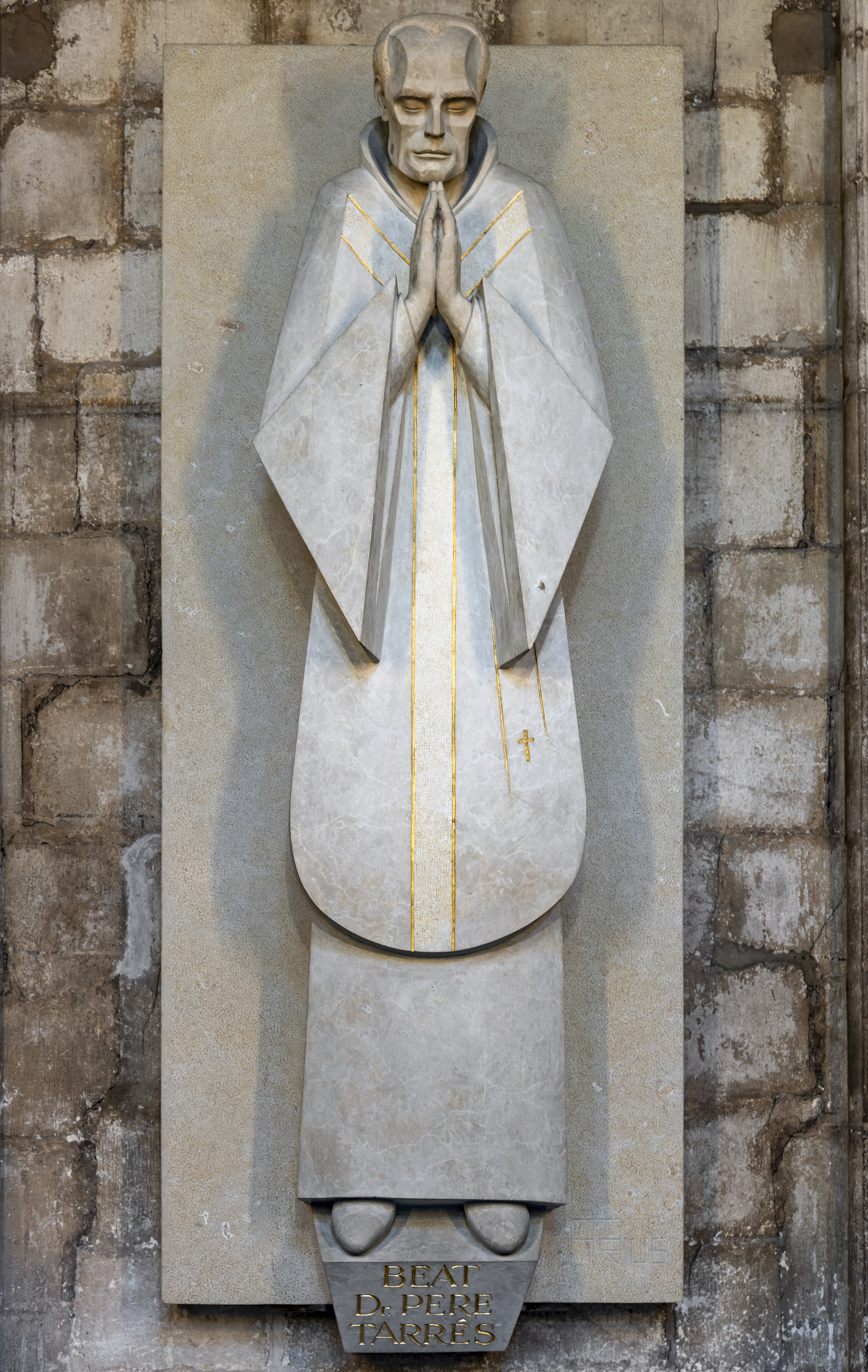 Cathedral of the Holy Cross and Saint Eulalia in Barcelona. Monument to Blessed Father Tarrés, by the sculptor Montserrat García Rius, in a chapel of the cloister, the Cathedral of Barcelona inaugurated in 2011